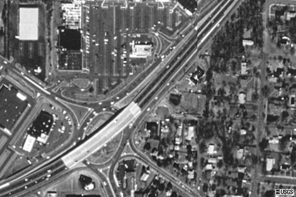 Aerial image of Somerville Circle, a traffic circle on the border of Bridgewater Township and Raritan, New Jersey, United States.